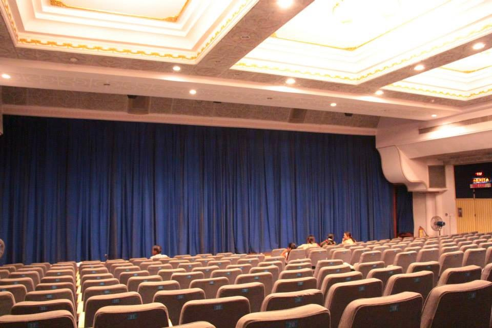 Modern halls